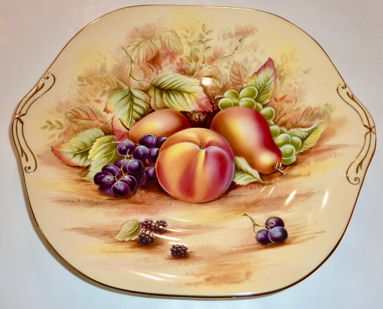 Underside of plate reads: Est 1775 Aynsley Made in England. Fine English Bone China Orchard Gold